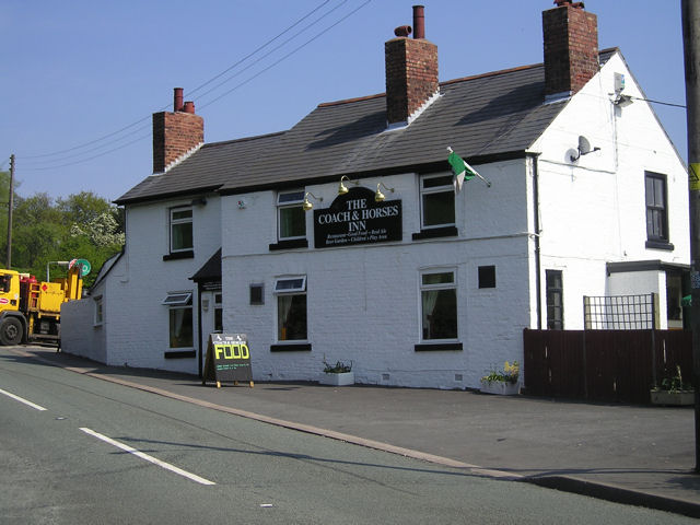 The Coach The Coach and Horses on the A5119 at Flint Mountain.